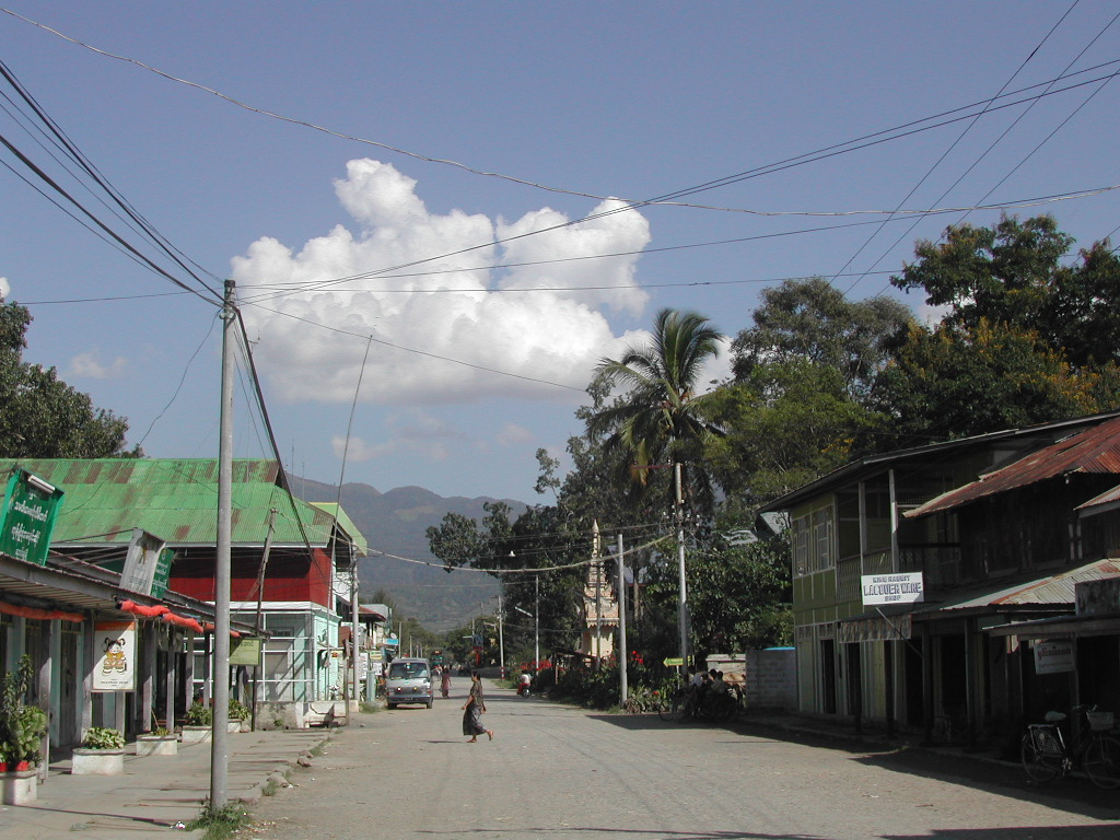 Street of Nyaug Shwe, Myanmar.